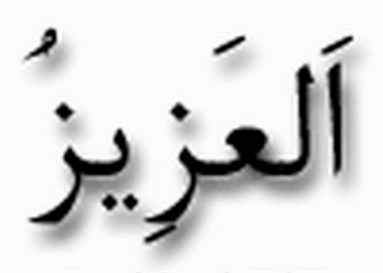 Name of Allah